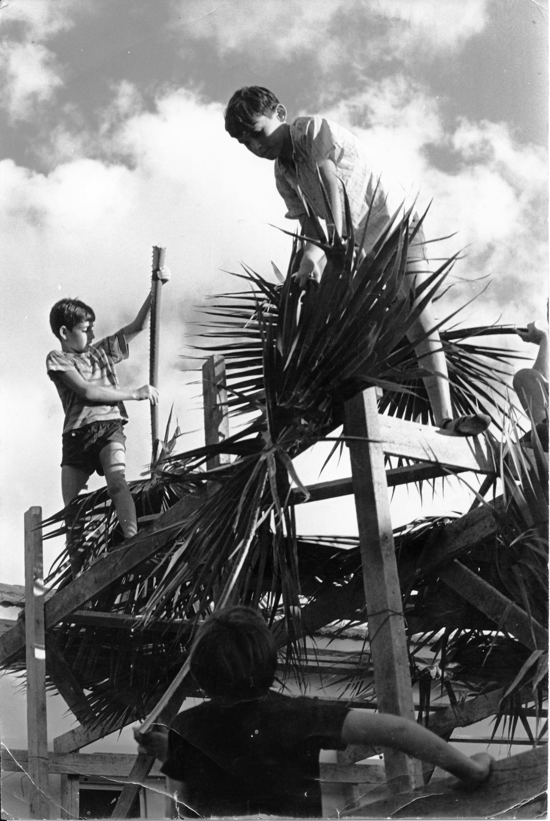 Kibutz Gan-Shmuel - Children Building Succah Sukkot holiday